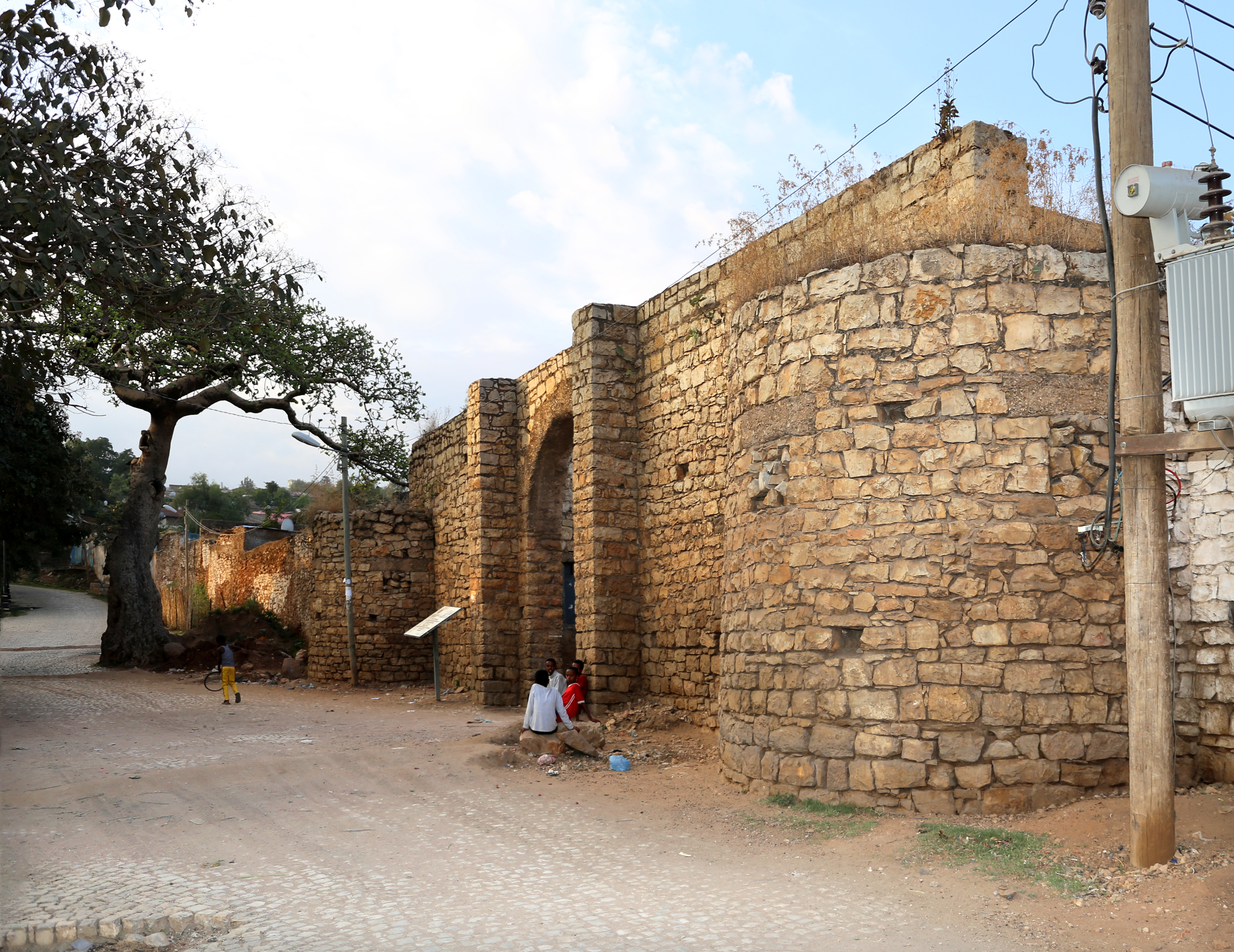 City gates in Harar